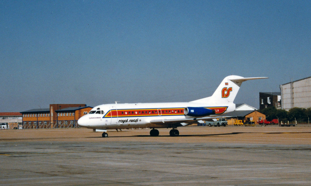 Photo: P.Dubois